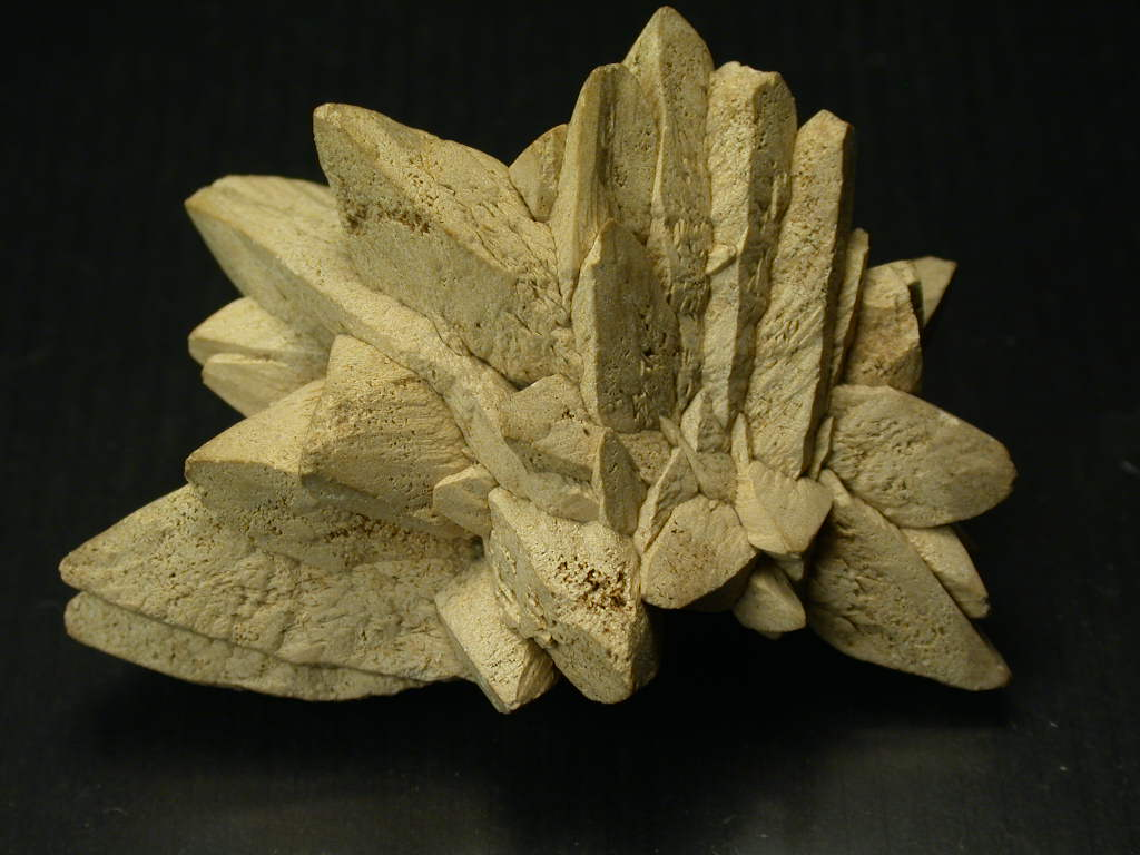 Glendonite, pseudomorph from Calcite after Ikaite Locality: Kola Peninsula, Murmanskaja Oblast', Northern Region, Russia Original description: A superb 5.8 by 4.3 cms group of crystals. JSS specimen and photo.